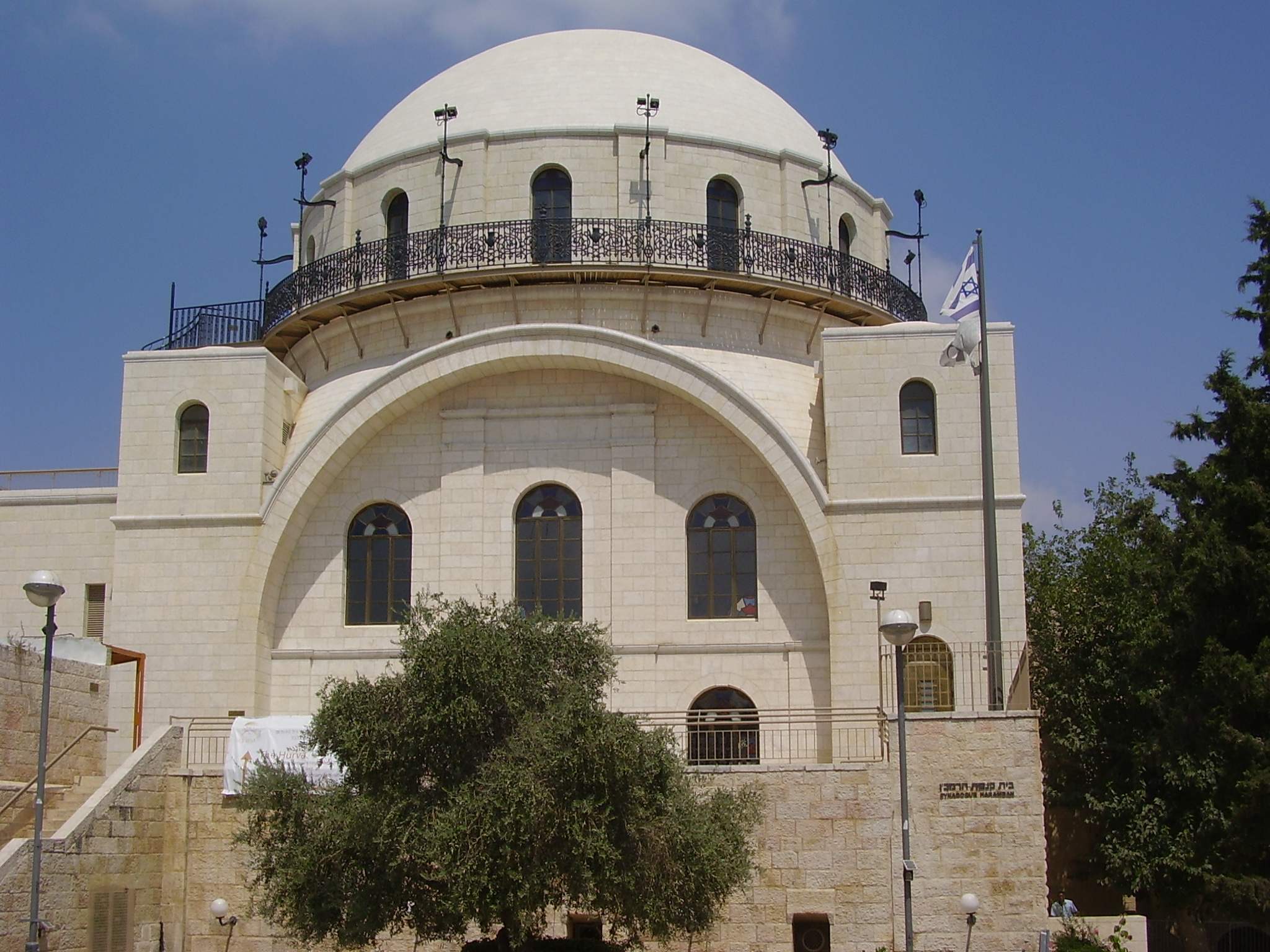 The Hurva Synagogue in Old Jerusalem